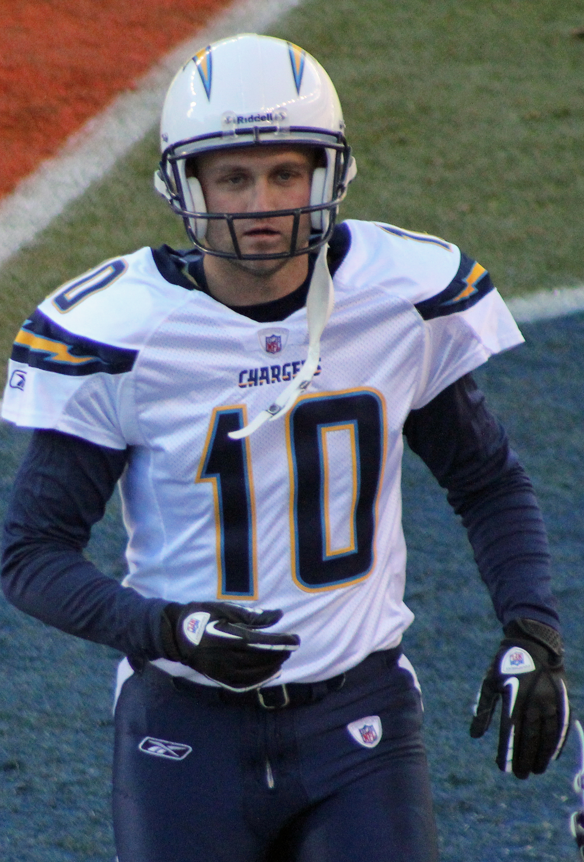 Kicker Nate Kaeding with the San Diego Chargers in 2011.